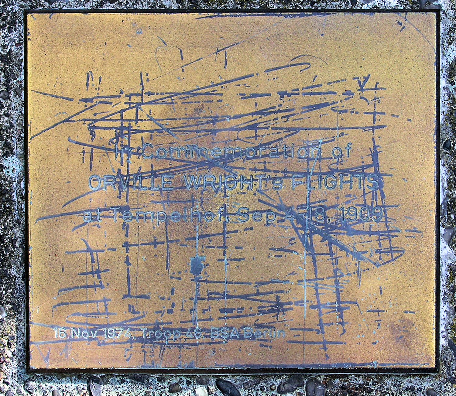 Memorial plaque, Orville Wright, Columbiadamm 8, Berlin-Tempelhof, Germany Koordinate:52°28′58″N 13°23′28″E / 52.48278°N 13.39111°E